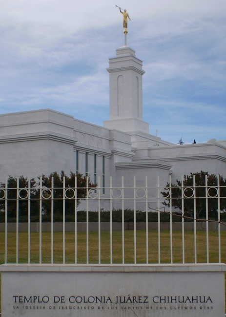 The Colonia Juárez Chihuahua México Temple (est. 1999) — of The Church of Jesus Christ of Latter-day Saints, in Chihuahua state, northern Mexico.